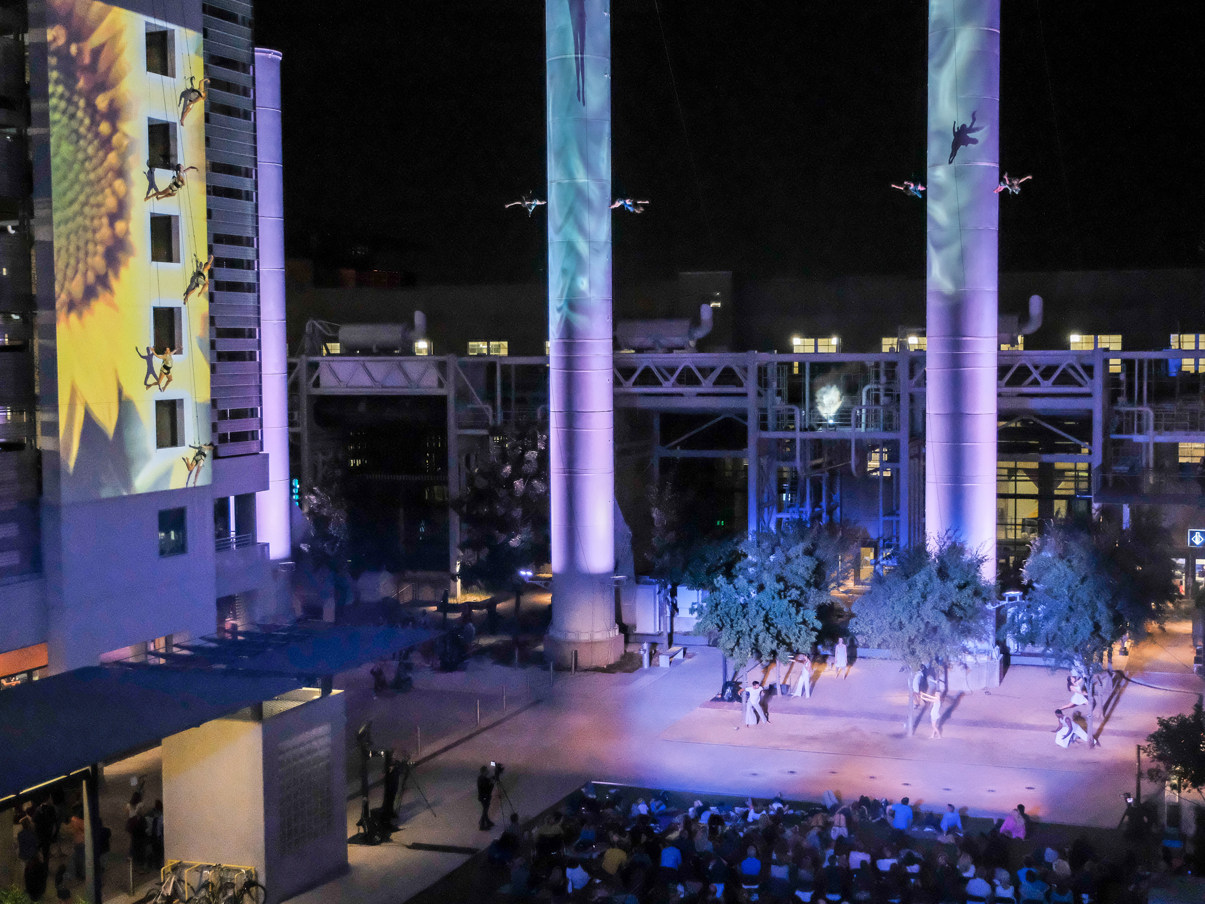 Aerial dance performance at the former Seaholm Power Plant which was converted into office space. Performance of "Belonging Part One" by Blue Lapis Light in Austin, Texas, USA.